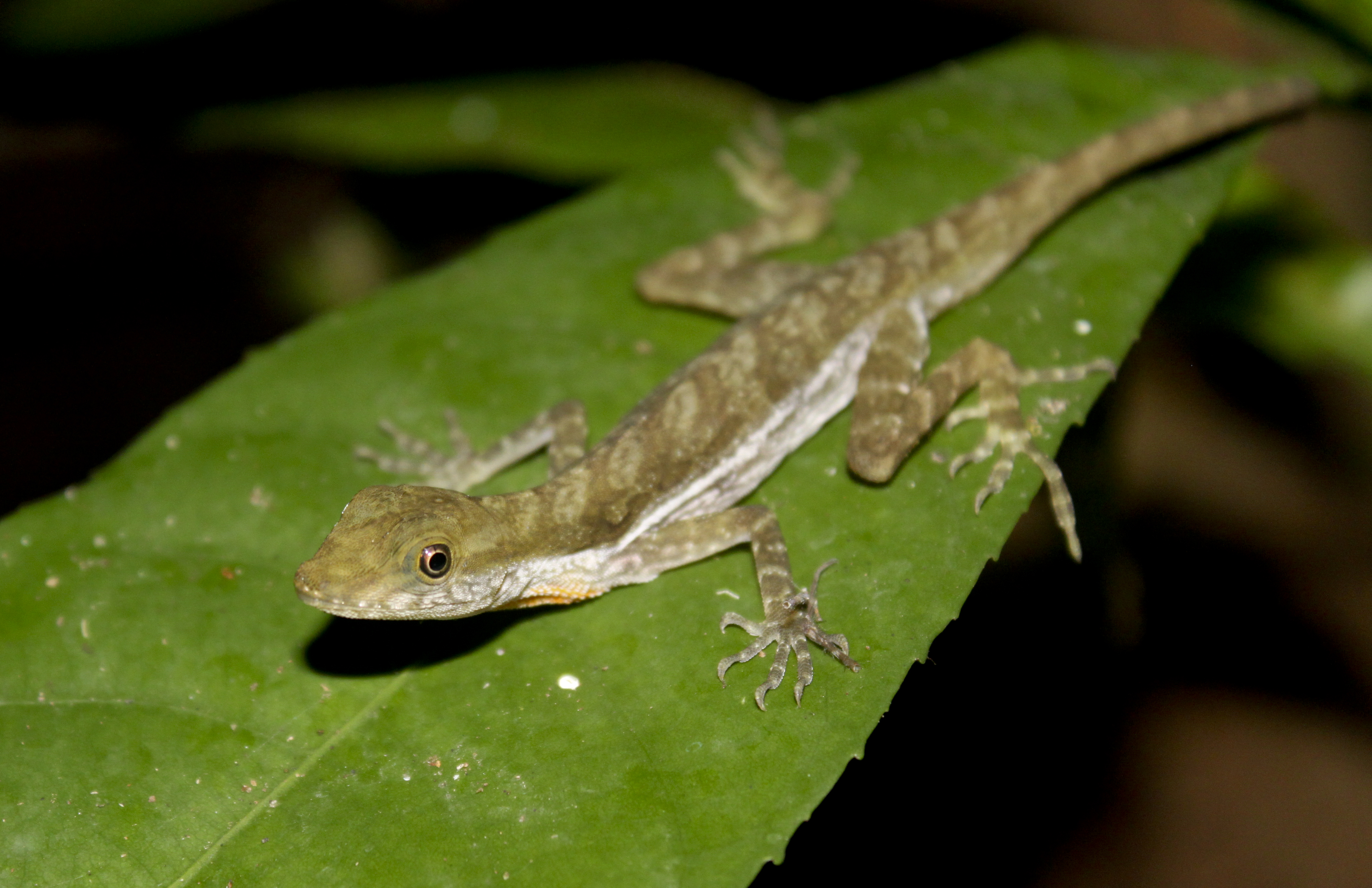 Stream Anole